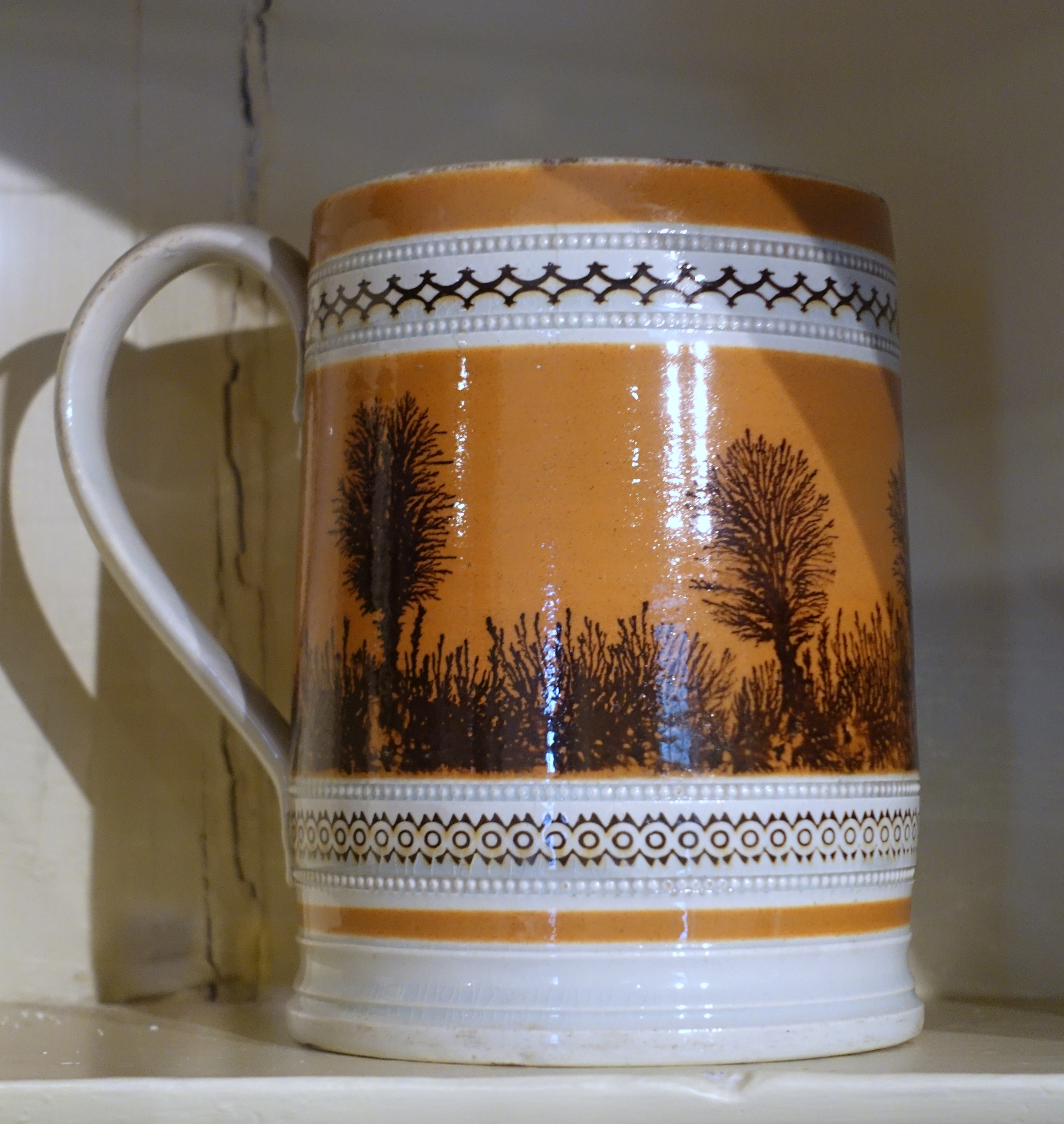 Exhibit in the Concord Museum, Concord, Massachusetts, USA.